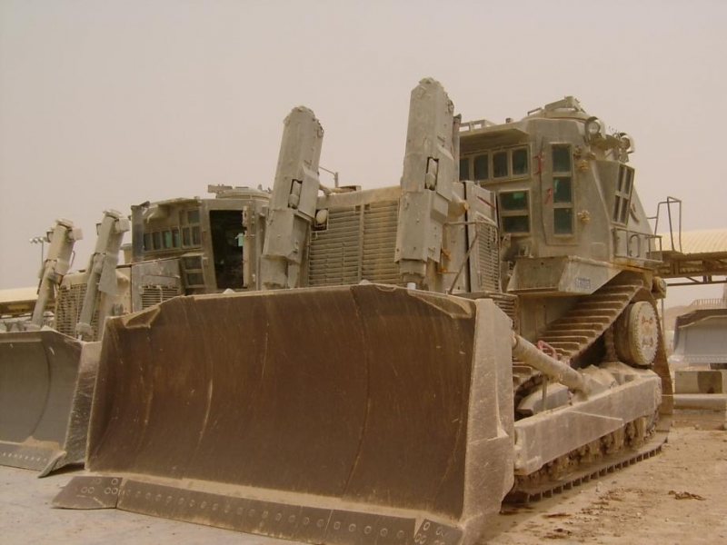 Israel Defense Forces armored Caterpillar D9L (right) and D9N (left) bulldozers